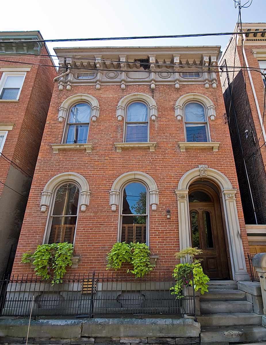 Bernard Ratterman House in Cincinnati, OH. Photo by Greg Hume